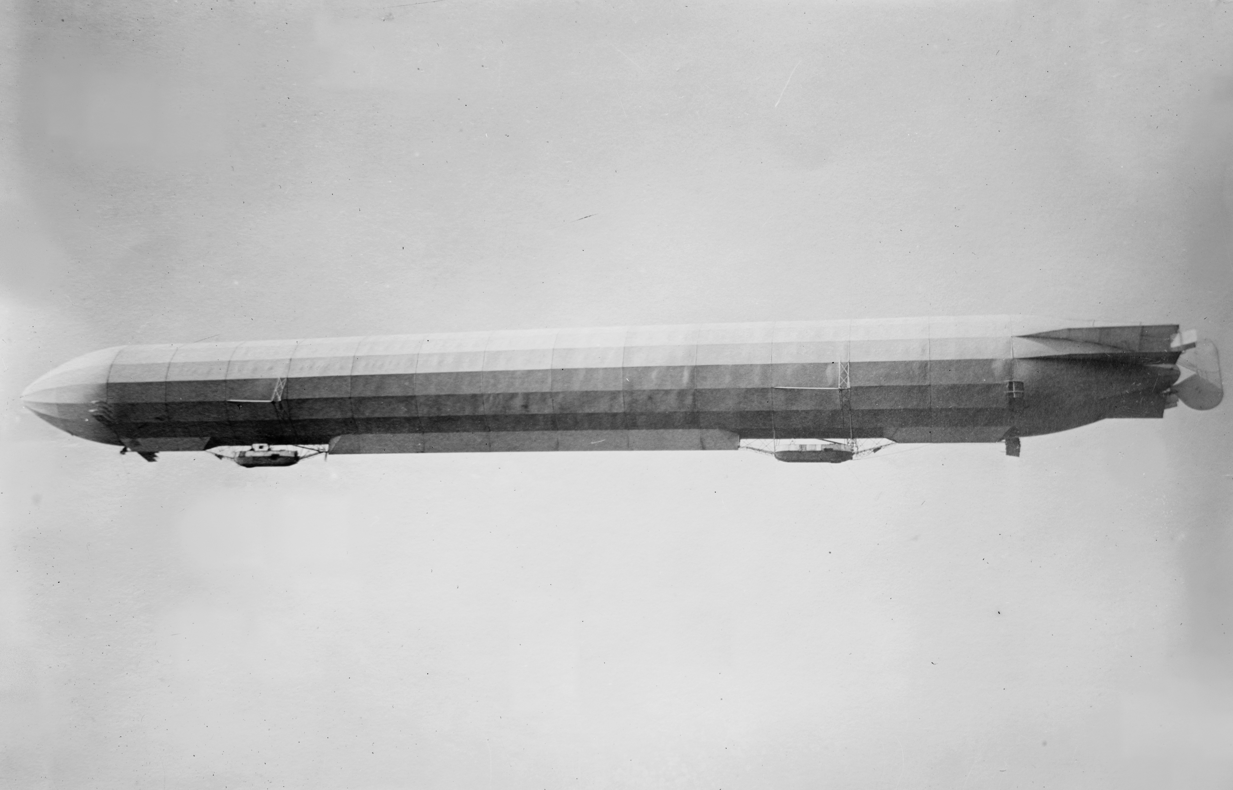 The German Zeppelin (airship) probably LZ 12 (military number: Z III) (April 25, 1912 to August 1, 1914) with incorrect year from Library of Congress. If the 1907 date is correct then this can only be the LZ3 (military number: Z I) with a rudder added after its first flights (but was LZ3 ever modified that way?). Other possibilities: LZ 4 (June 20, 1908 to 4 August 1908) had a rudder; LZ 6 (August 25, 1909 to 1910).